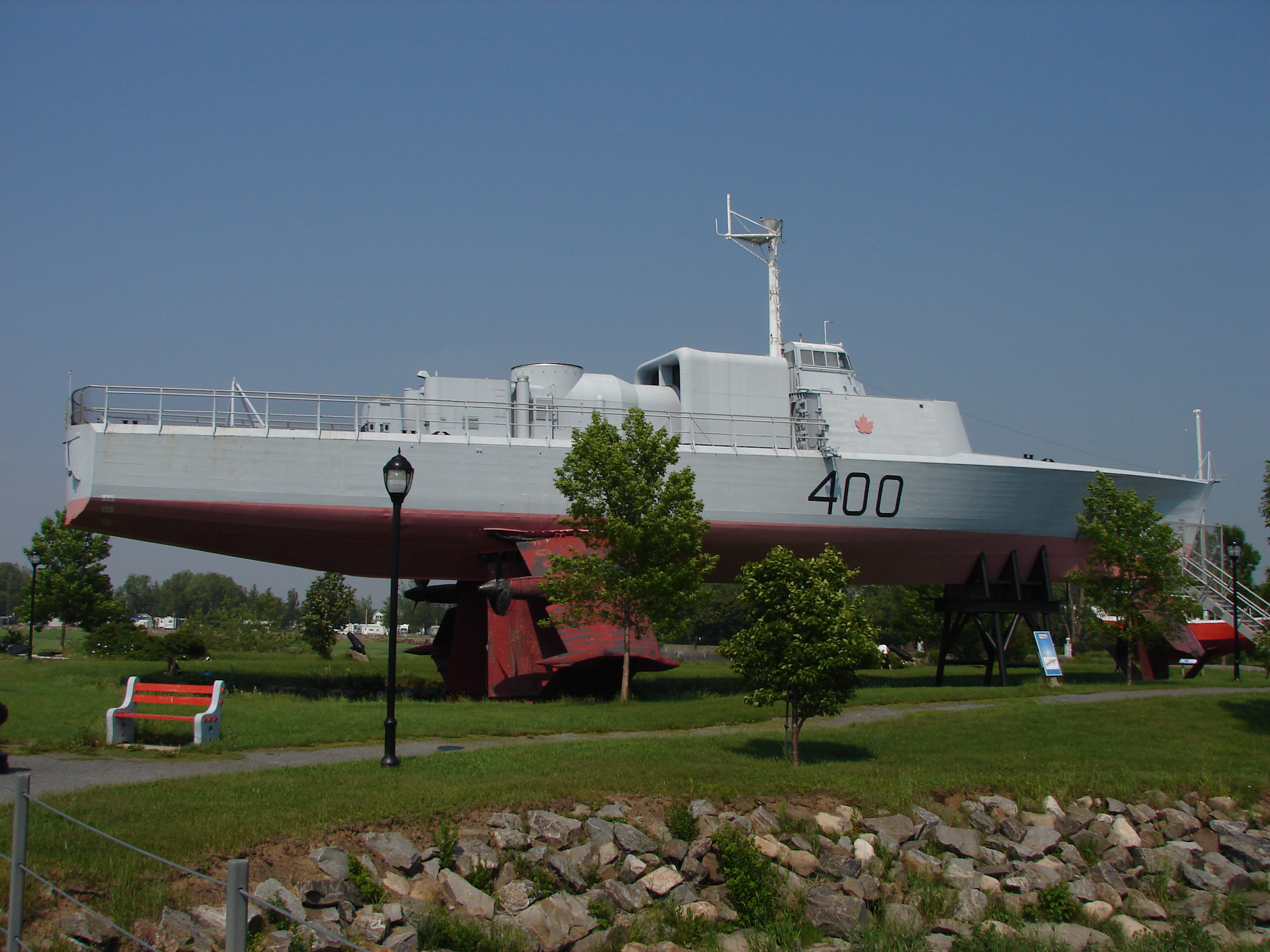 Author: Miguel Tremblay Date: June 19th 2006 Source: Photo taken by me on at the Musée maritime du Québec. Description: Full view of the hydrofoil HMCS Bras d'Or 400.